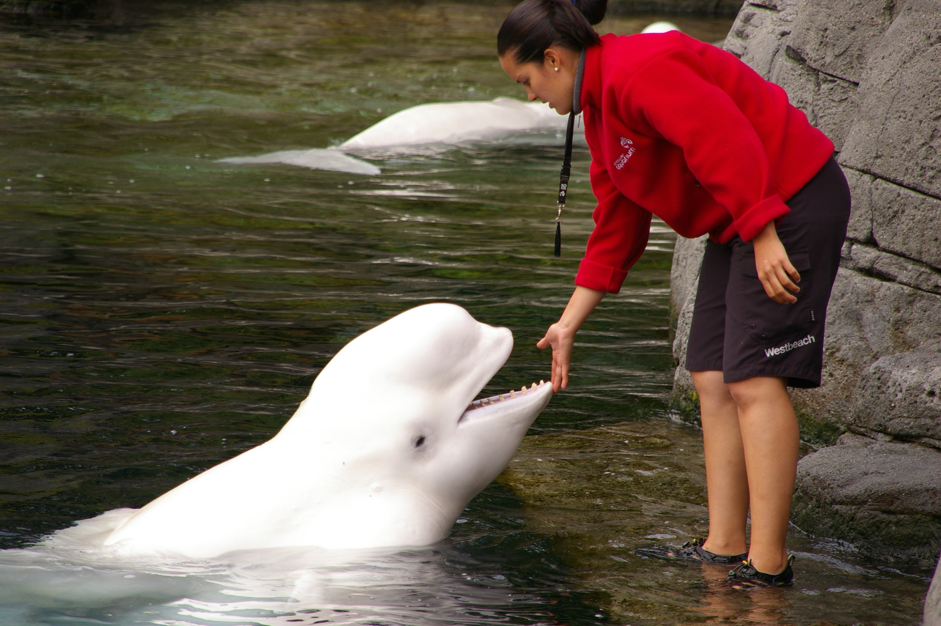 Health check of a Beluga Whale at Vancouver Aquarium, Canada.